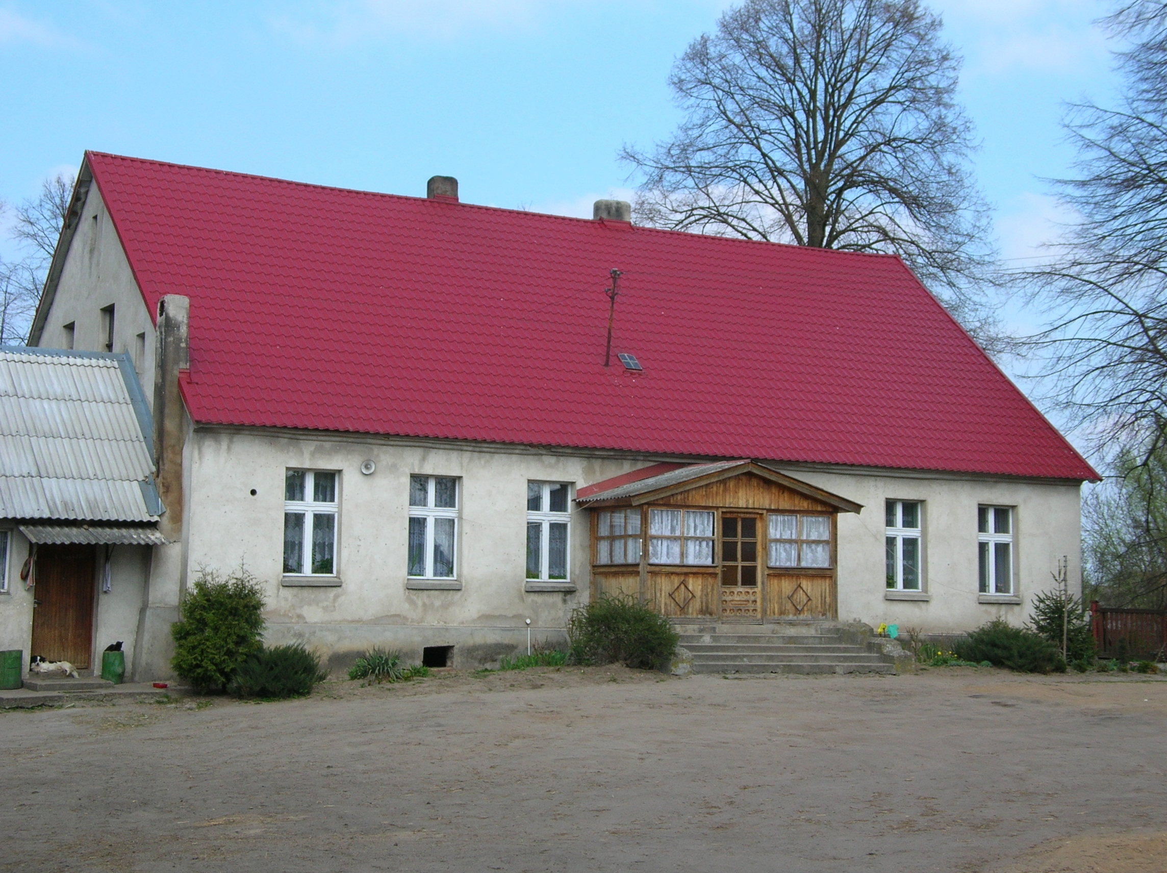 House, where Hipolit Cegielski was born.